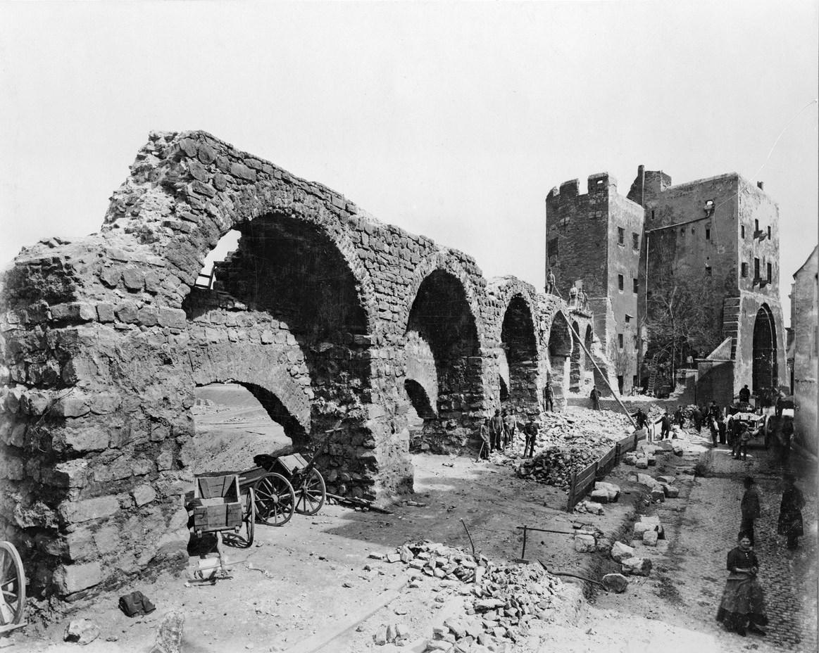 Mittelalterliche Stadtmauer der Stadt Köln, Eigelsteintor, Köln, 1882